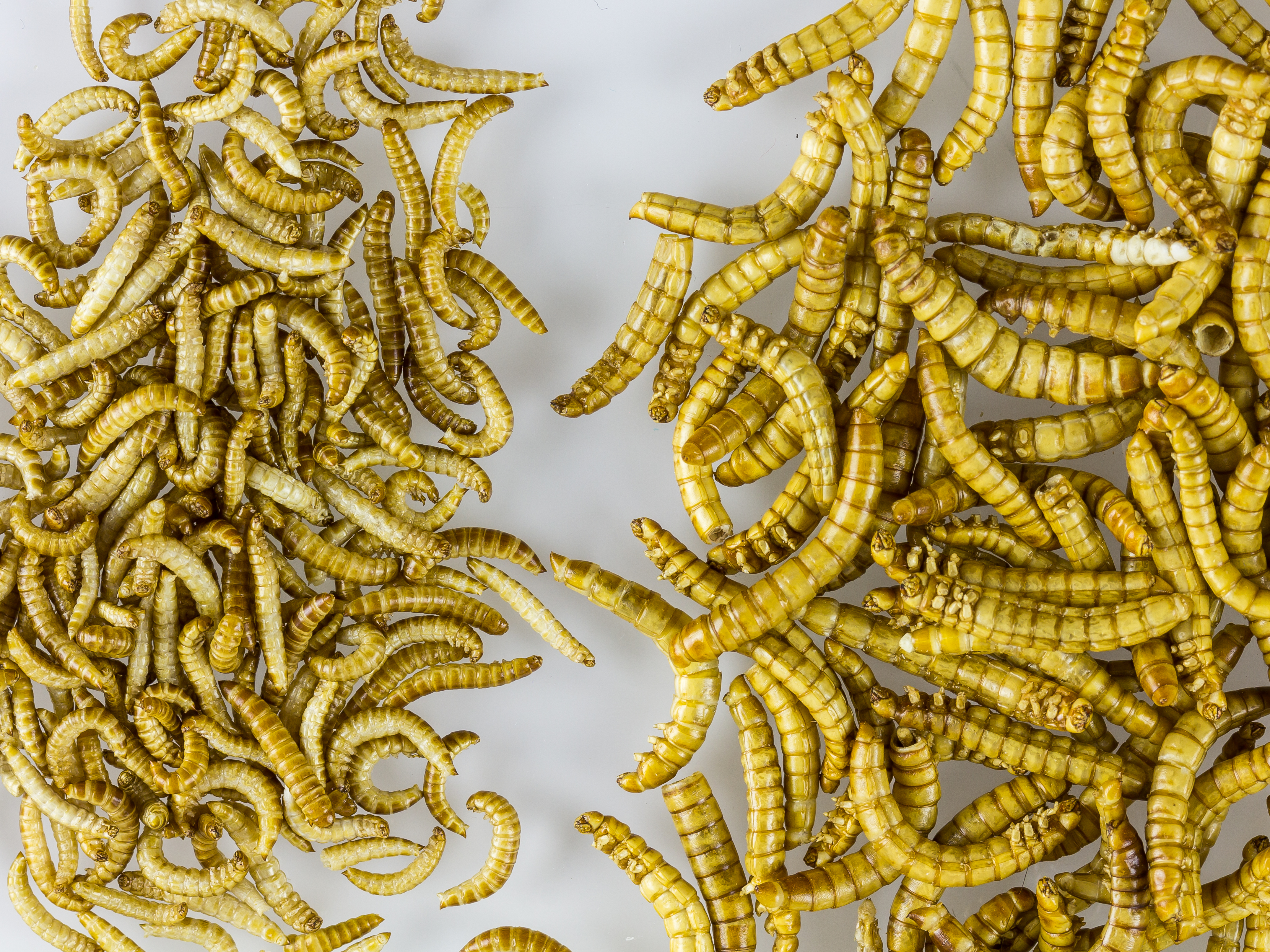 Mealworms as food and Buffaloworms as food